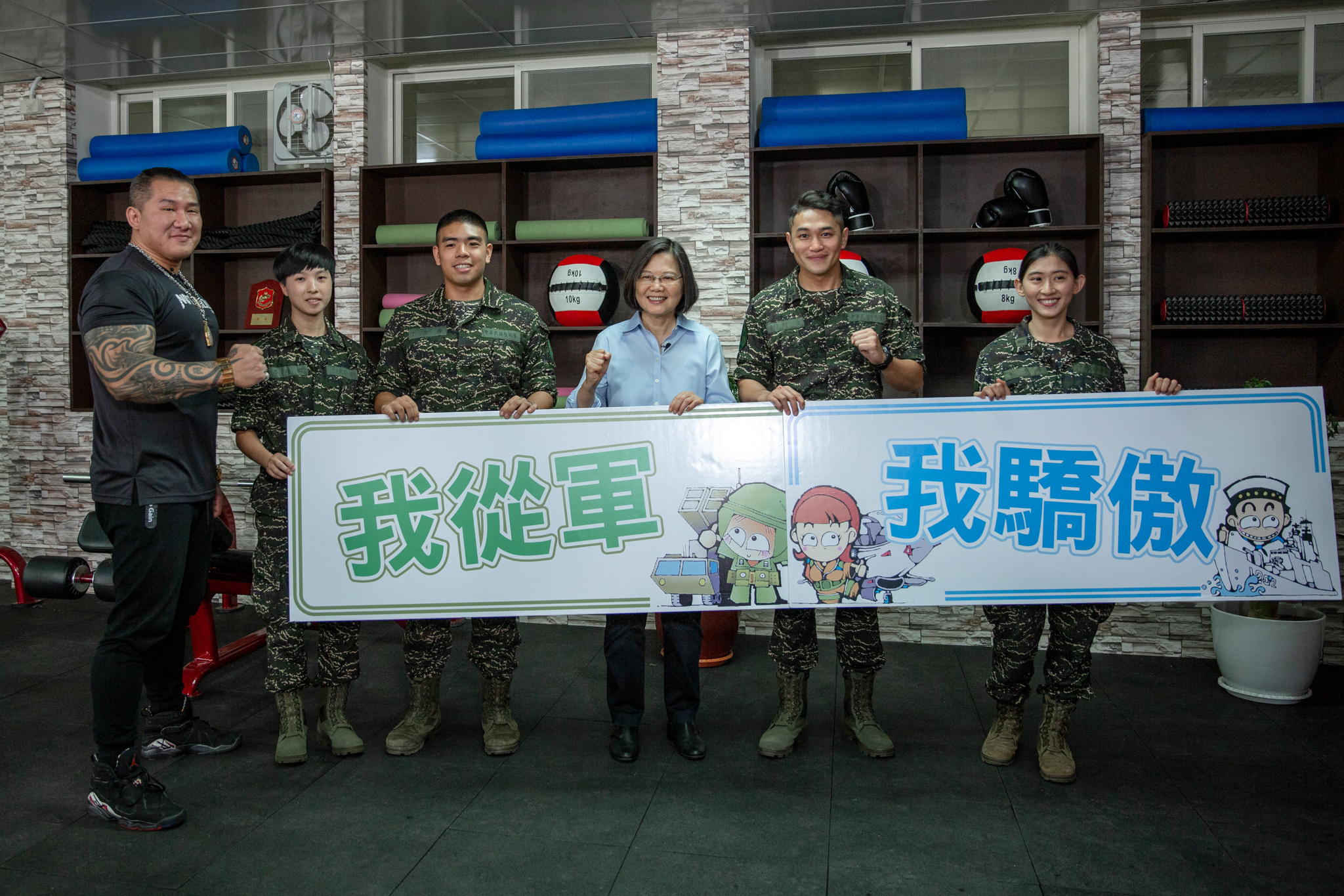 Official Photo by Wang Yu Ching / Office of the President